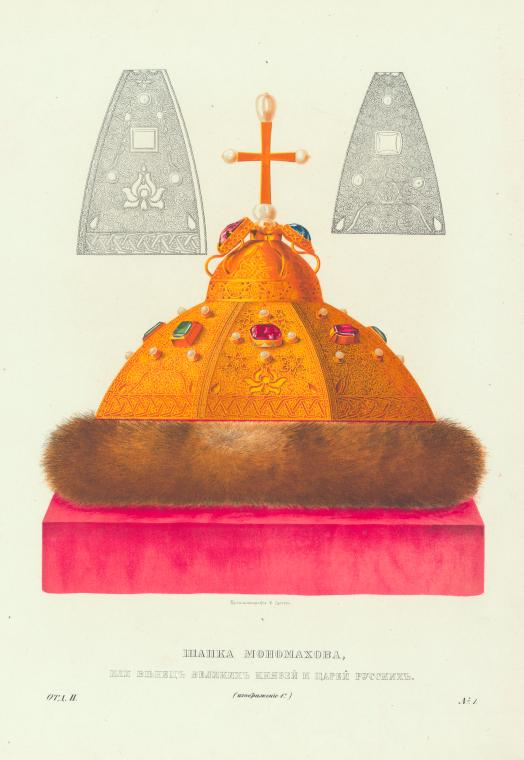 Monomakh's Cap